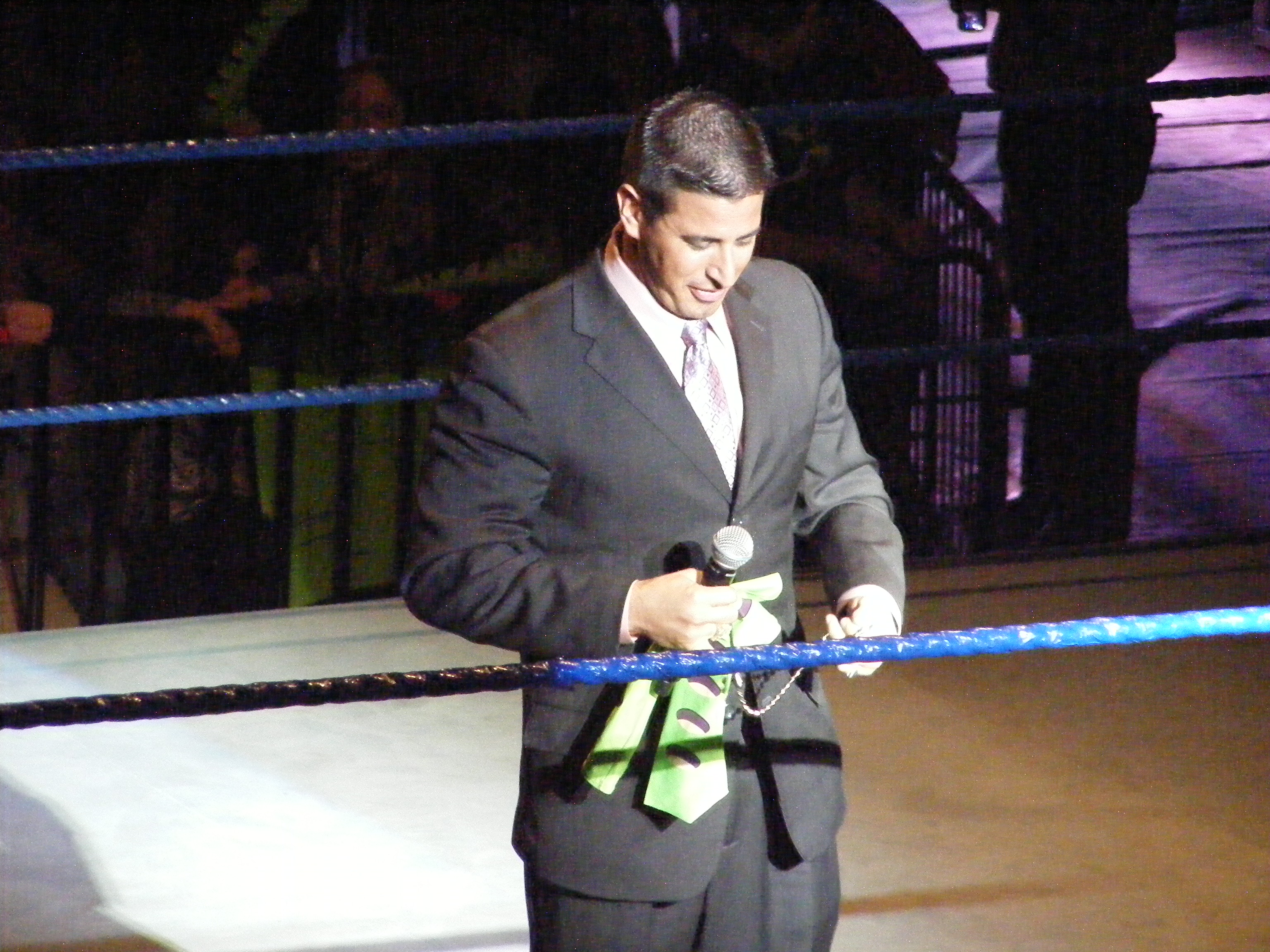 Professional wrestling announcer Justin Roberts in February 2009